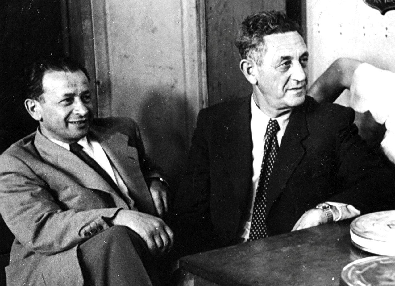 Mordechai Navon and Itschak Agadati, Israeli film producers מרדכי נבון ויצחק אגדתי. תמונה מאוסף משפחת נבון, נמסרה לוויקיפדיה באמצעות יעקב גרוס